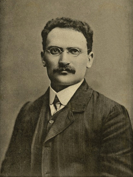 Ber Dov Berochov (1881-1917) - a Marxist Zionist and one of the founders of the Labour Zionist movement.